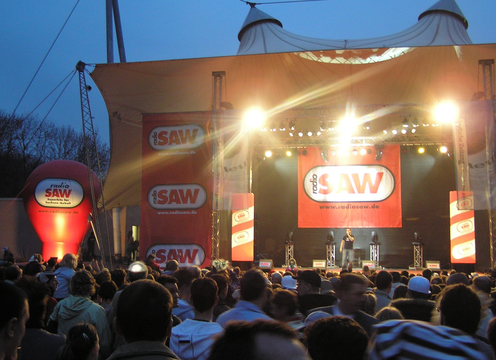 radio SAW "HIT ARENA" 2006